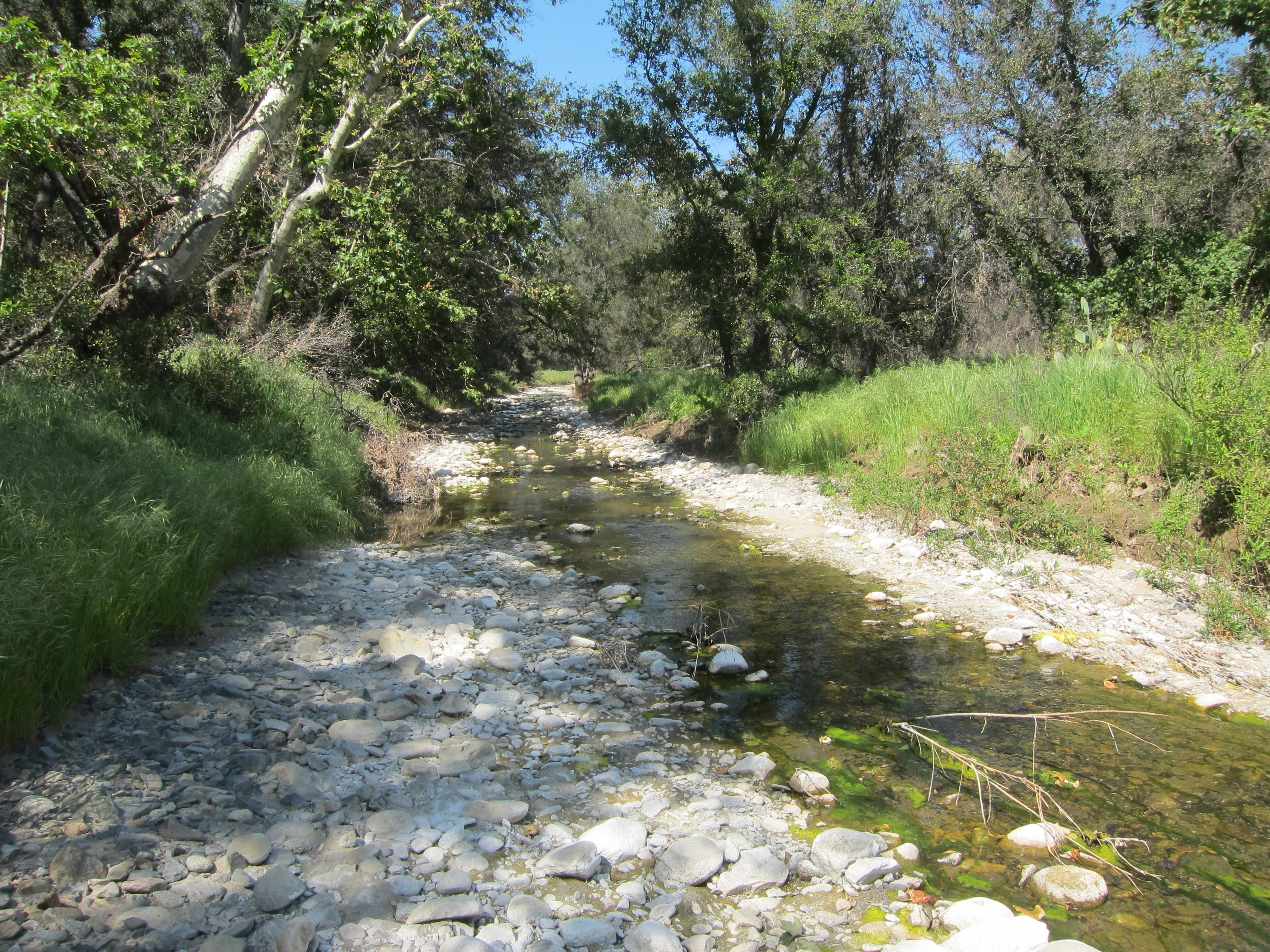 a view of Bell Canyon Creek at Ronald Caspers Wilderness Park, near San Juan Capistrano, California.